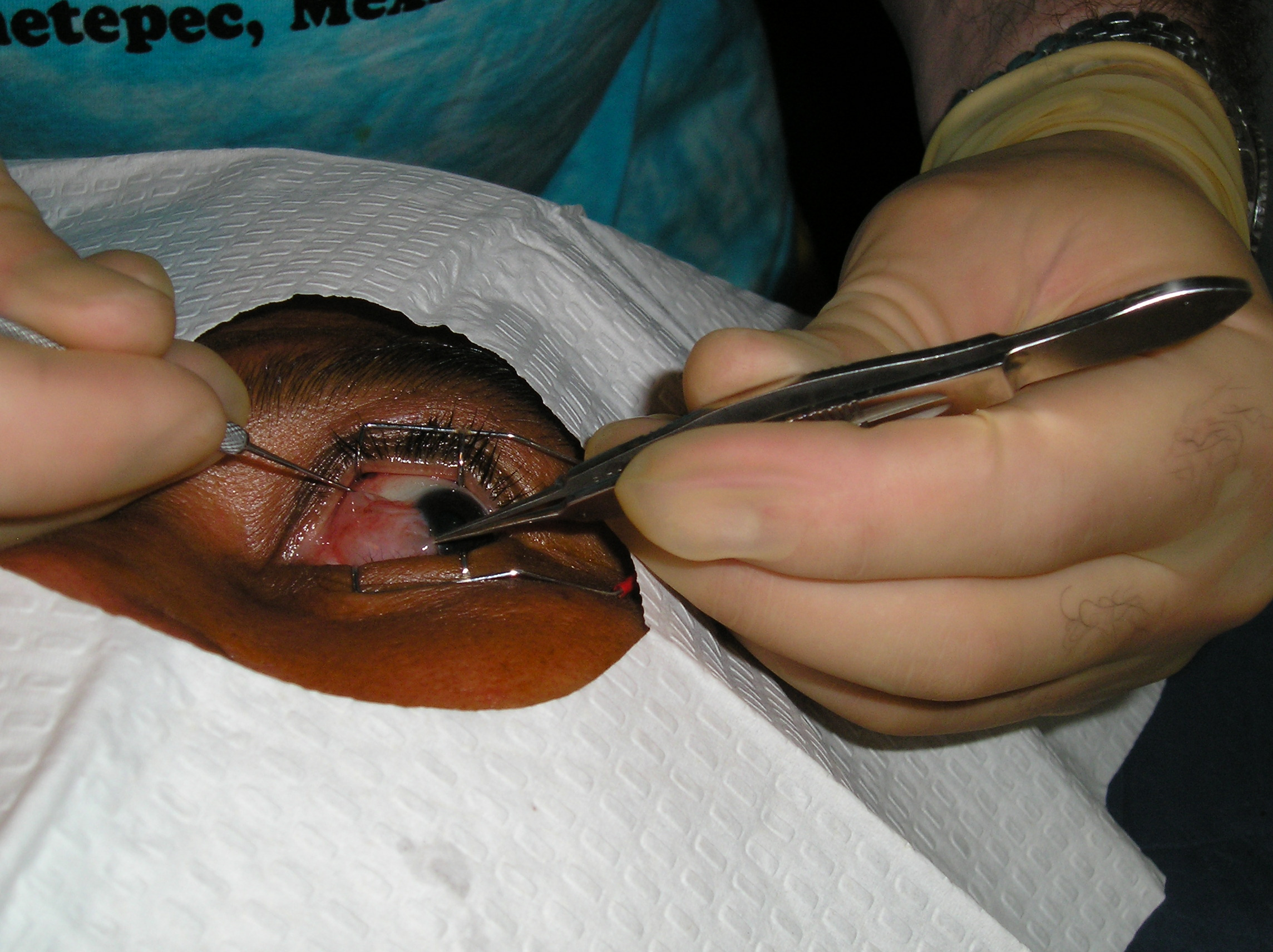 Personal photo of Pterygium removal surgery, perfomed by World Cataract Foundation in Ometepec, Mexico